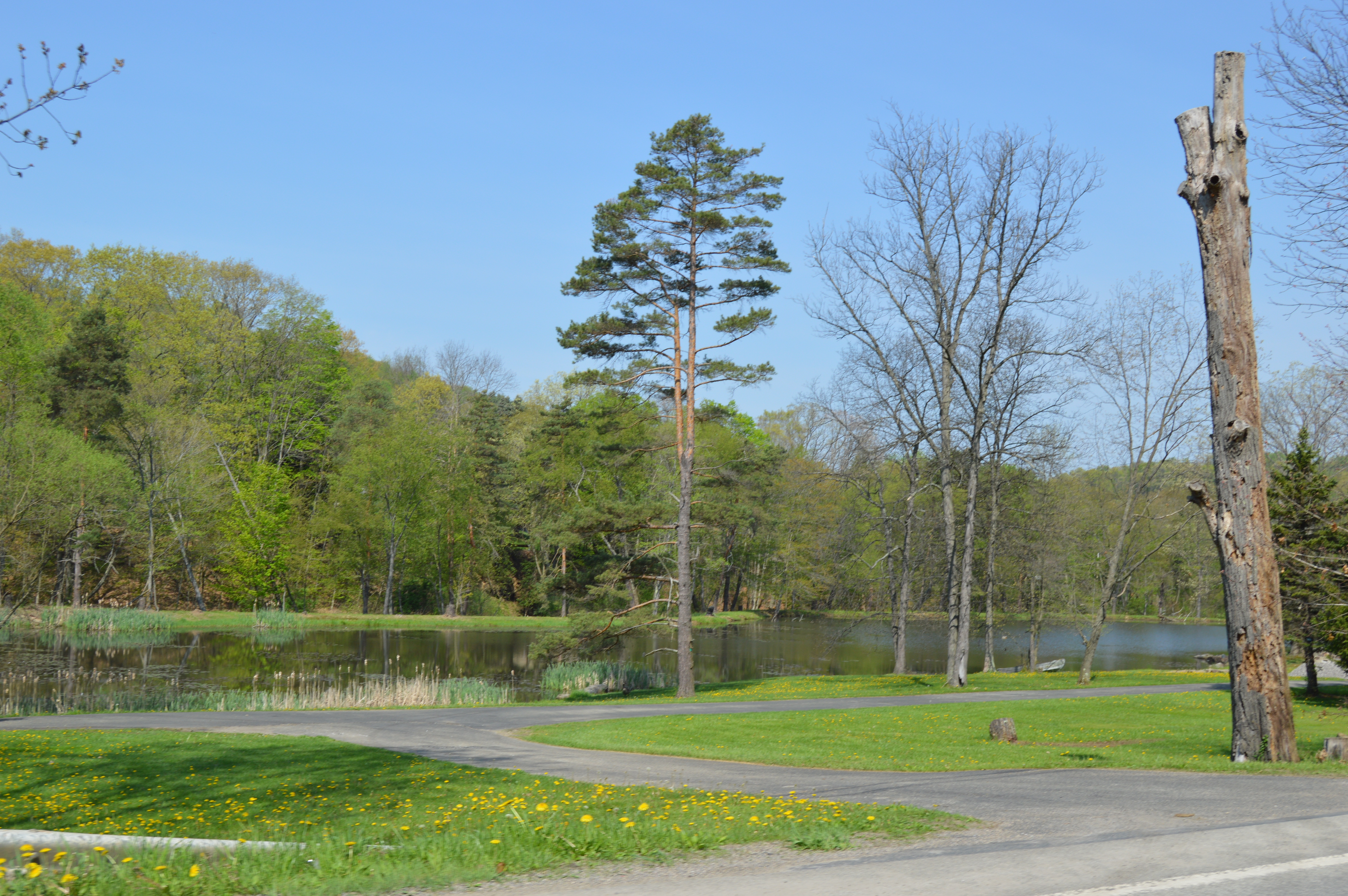 A pond along the western side of Pennsylvania Route 110 southeast of Ernest in White Township, Indiana County, Pennsylvania, United States.